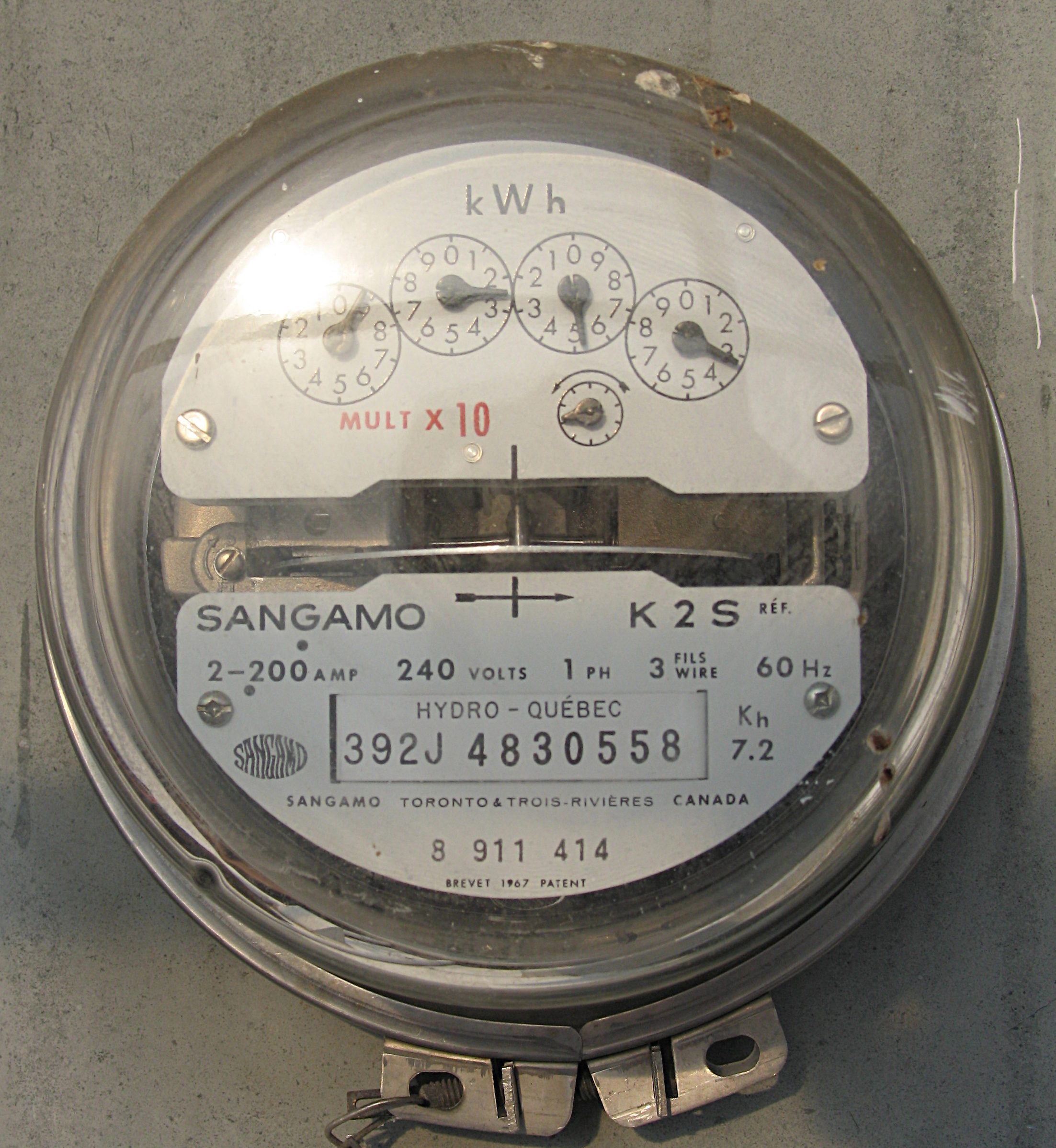 A Sangamo electricity meter, used by Hydro-Québec. These electro-mecanic meters have been replaced with electronic smart meters between 2013 and 2015.